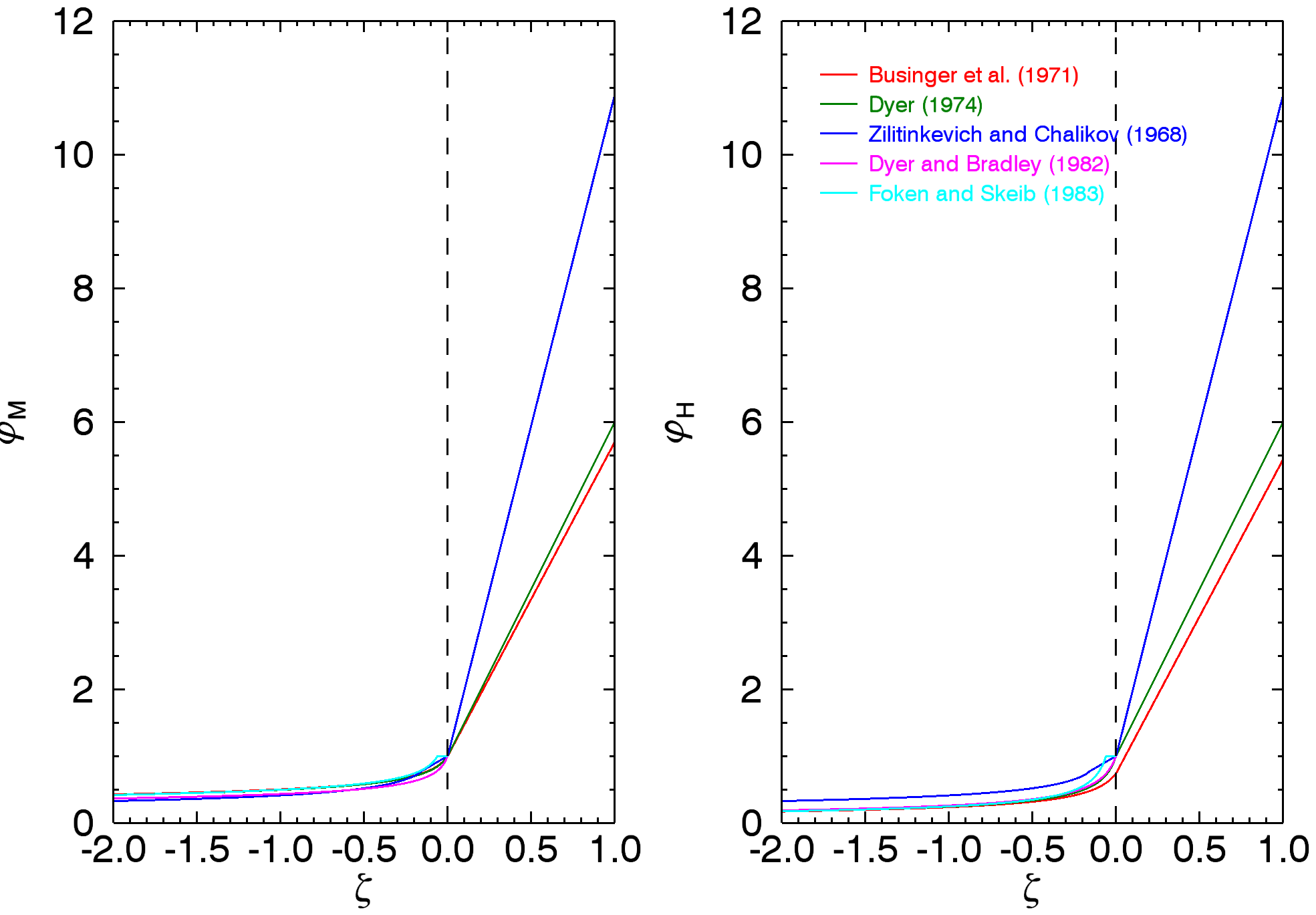 This figure shows the universal functions of momentum and heat for Monin-Obukhov similarity theory used in the literature.